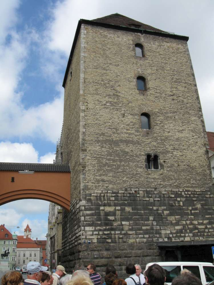 Roman Tower - Regensburg City, Germany